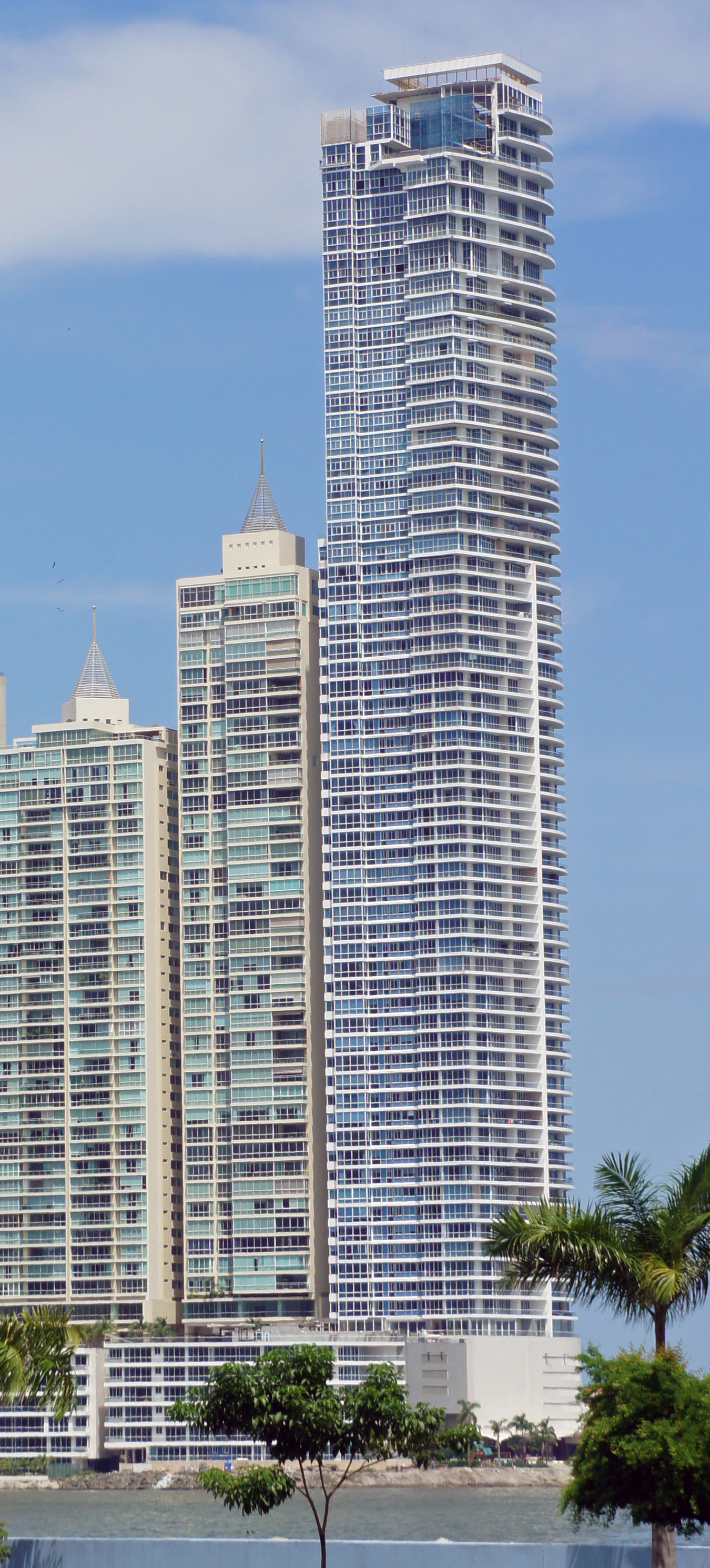 The Point is a 67-story skyscraper in Panama City, Panama. It has 266 meters high and is the tallest all-residential building in the western hemisphere.